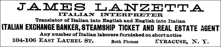 James Lanzetta - Italian Interpreter and Exchange Banker - 104 East Laurel Avenue, Syracuse, New York